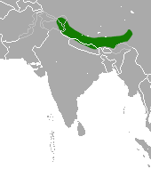 Nubra Pika (Ochotona nubrica) range